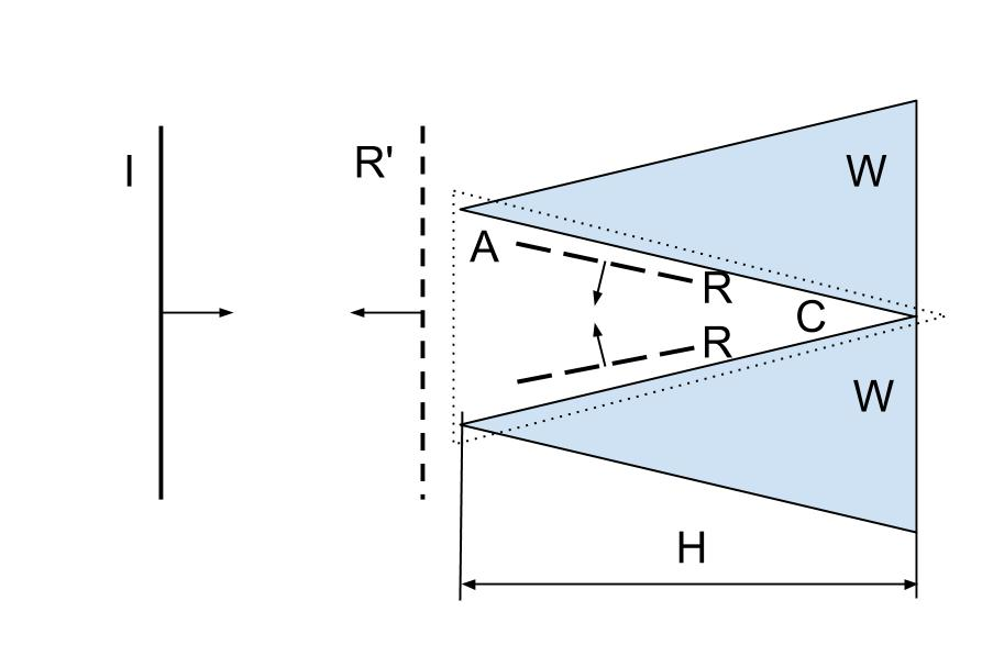 This figure illustrates the minimization of the reflection of sound waves by an anechoic chamber's walls.